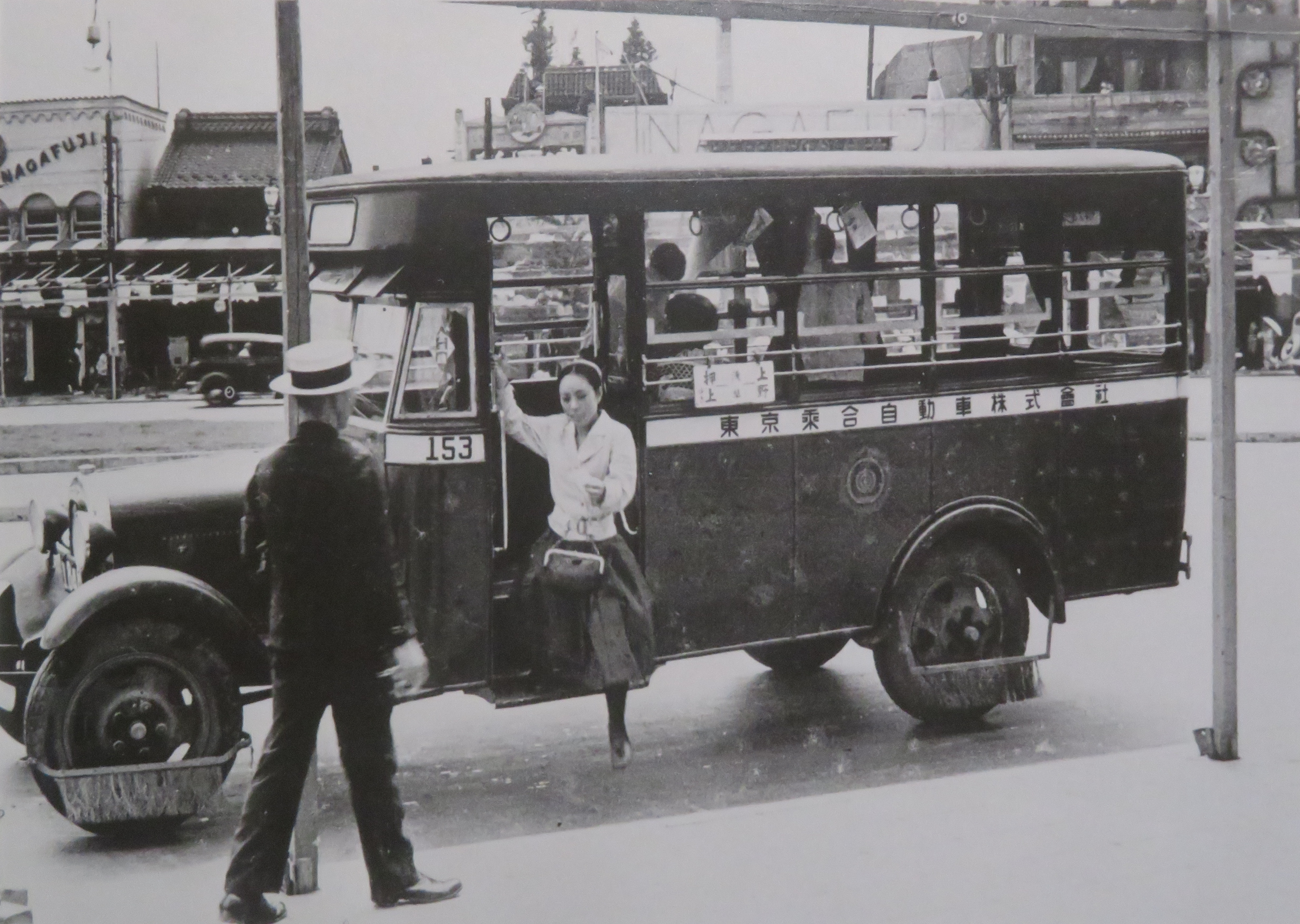 TokyoNoriaiJidoushaBus in Ueno, 1934